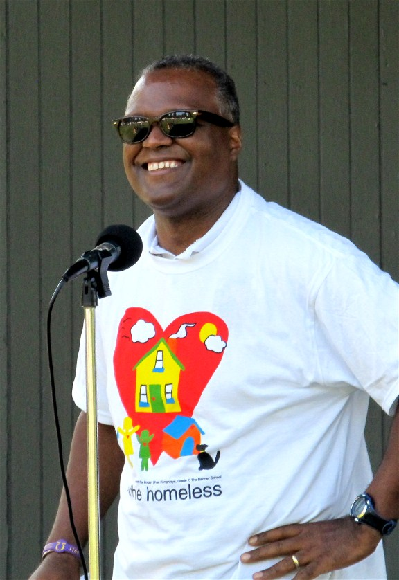 Rushern Baker speaks to the Prince George's County Cares Walk for the Homeless